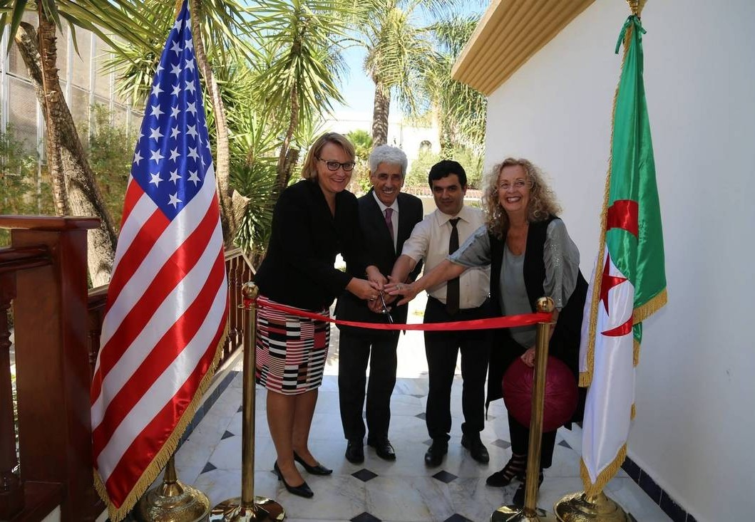 Ribbon-cutting ceremony to inaugurate the American School of Algiers (AISA). From left to right, Joan Polaschik (Ambassador of the United States in Algeria), Larbi Katti (Director General of Americas at the Algerian Ministry of Foreign Affairs), Boubaker Bouazza (Director of Legal Studies and Cooperation at the Algerian Ministry of National Education), and Judith Drotar (Director of AISA).